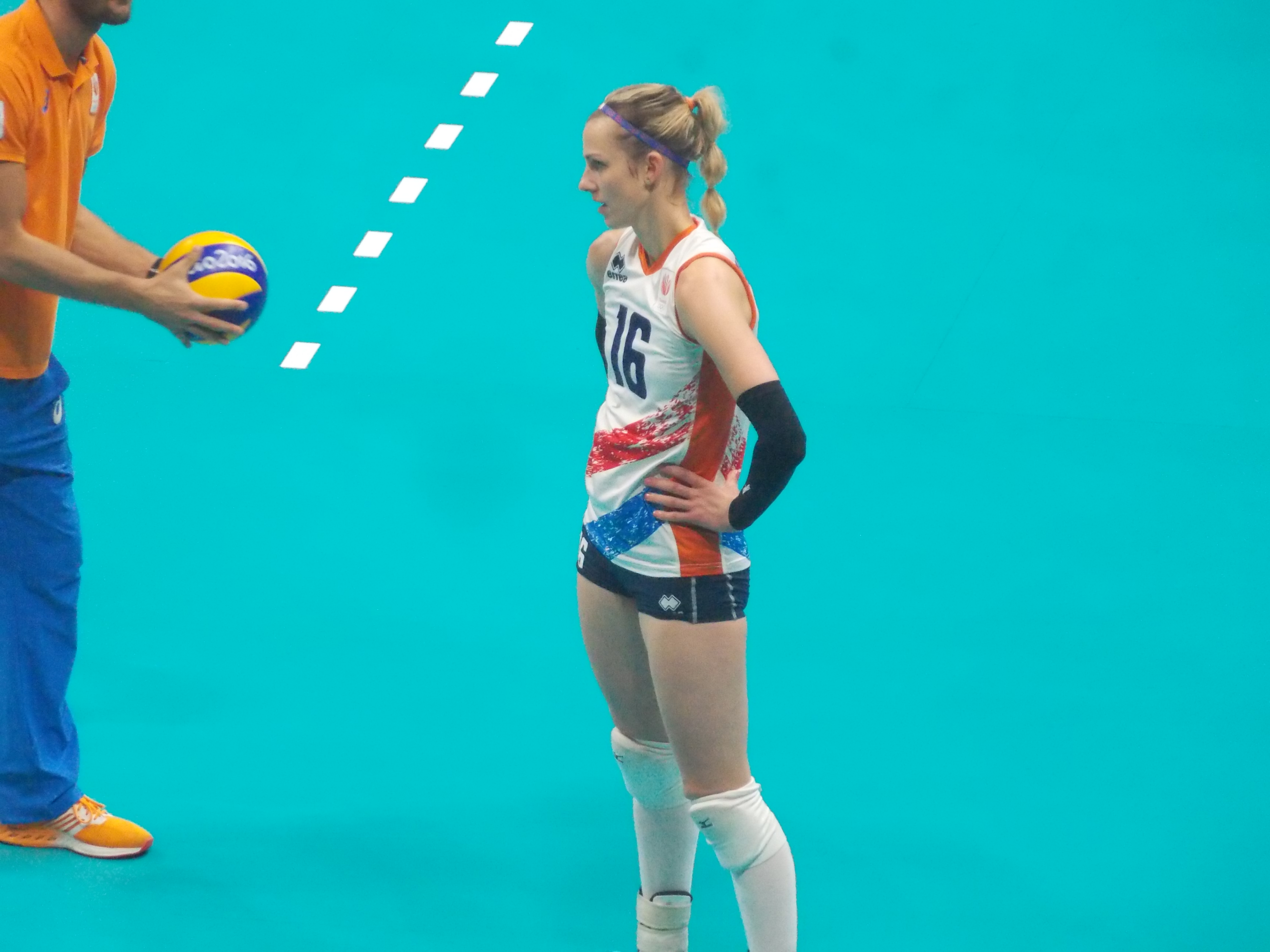 Volleyball at the 2016 Summer Olympics – Women's tournament: South Korea 1x3 Netherlands (19–25, 14–25, 25–23, 20–25).